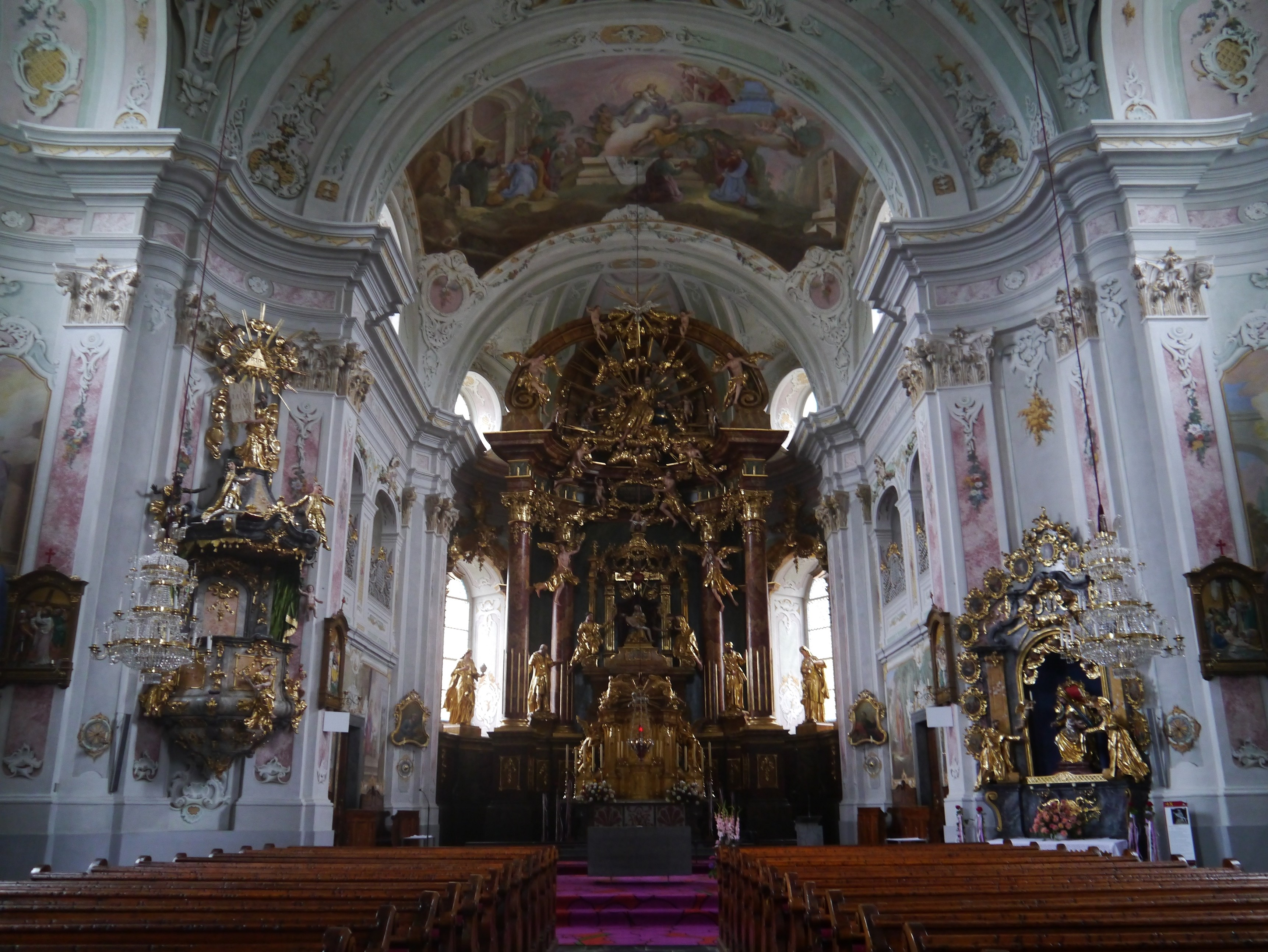 Choir of Weizberg Church, Weiz